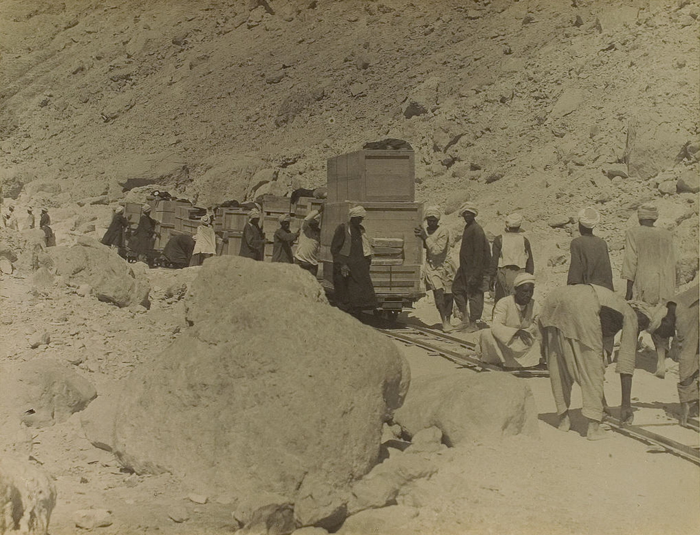 Harry Burton: Tutankhamun tomb photographs: a photographic record in 5 albums containing 490 original photographic prints ; representing the excavations of the tomb of Tutankhamun and its contents. Vol. 1